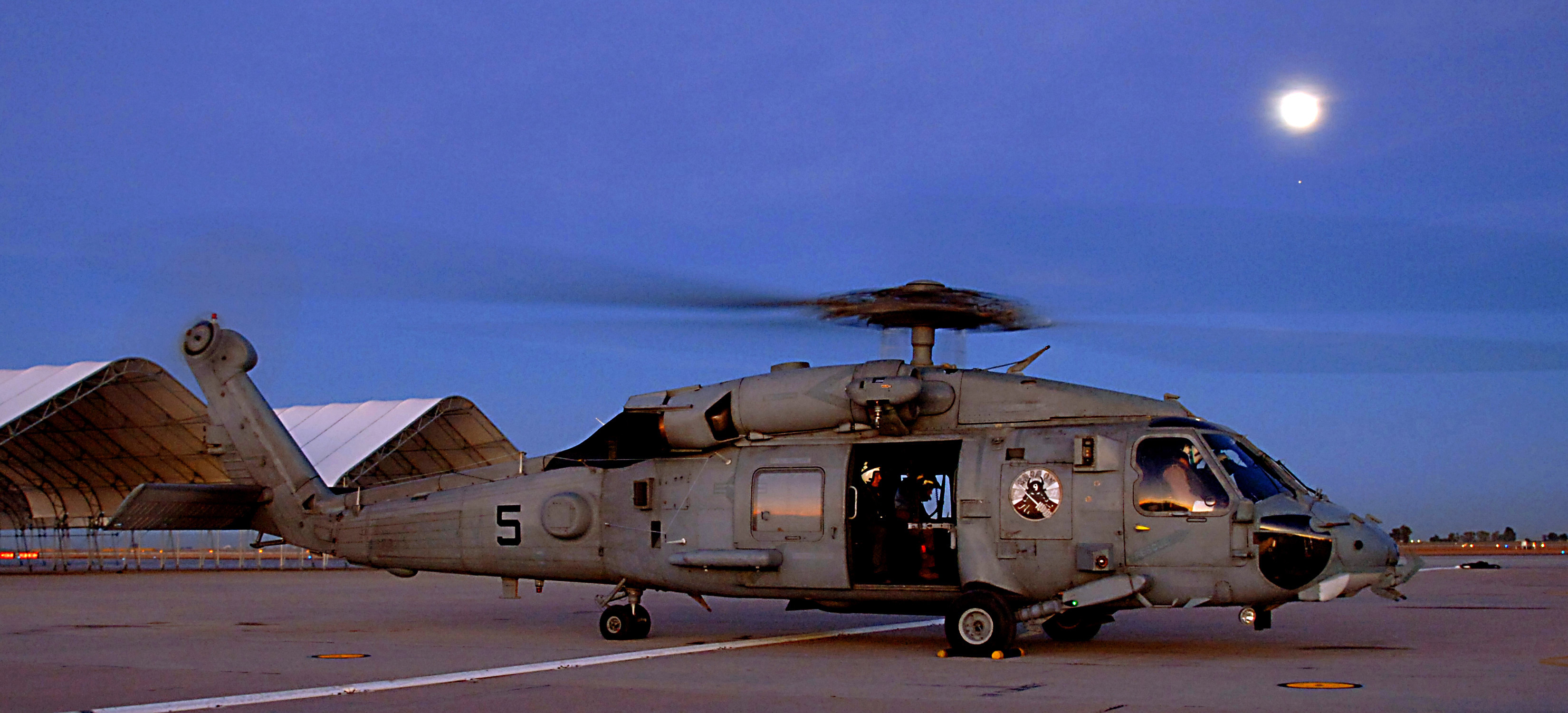 El Centro, Calif. (Nov. 14, 2005) - An HH-60H Seahawk helicopter, assigned to the “Eightballers” of Helicopter Anti-Submarine Squadron Eight (HS-8), prepares to takeoff for a night training mission from Naval Air Facility (NAF) El Centro, Calif. A detachment from HS-8 is currently deployed to NAF El Centro to conduct periodic Combat Search and Rescue (CSAR) and weapons training. U.S. Navy photo by Photographer’s Mate 2nd Class Scott Taylor (RELEASED)